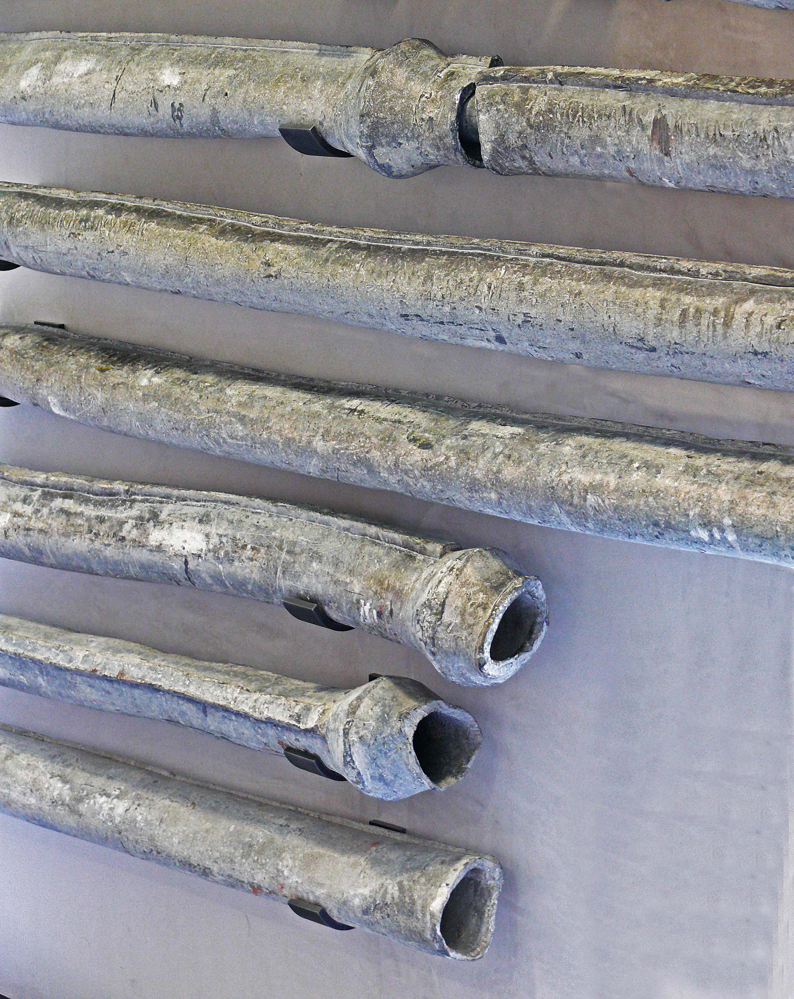 Roman lead pipes found in the Rhone river.